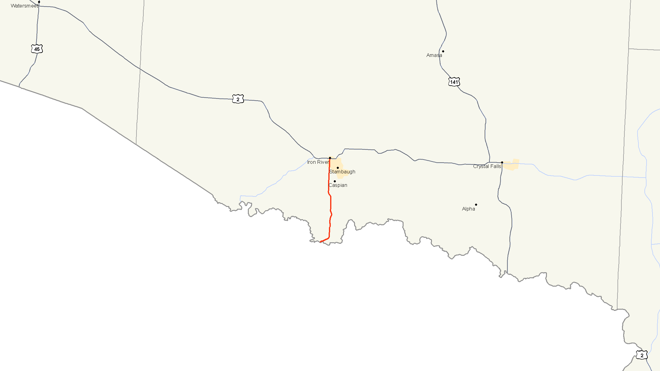 Map of M-189